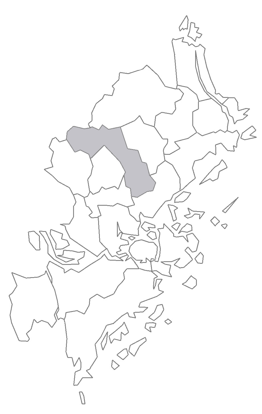 Map describing the location of Lång Hundred in Stockholm County.